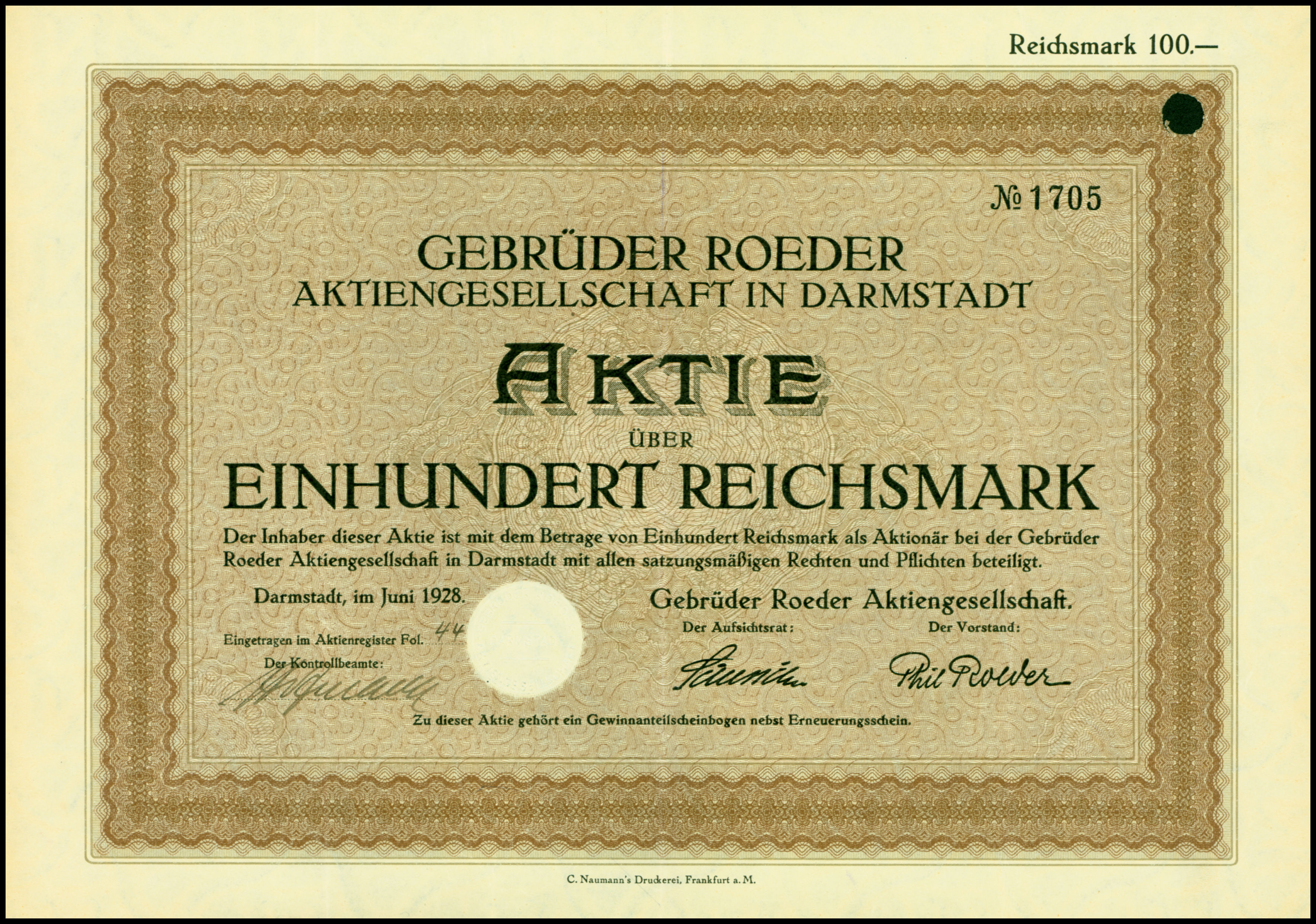 Share of the Gebrüder Roeder AG, issued June 1928